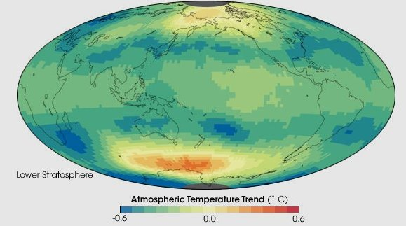 The temperature trend in the Lower Stratosphere as measured by a series of satellite-based instruments between January 1979 and December 2005. The Lower Stratosphere is centered around 18 kilometers above Earth's surface. The stratosphere image is dominated by blues and greens, which indicates a cooling over time.